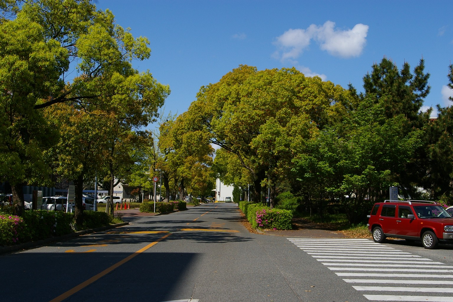 Maidashi campus